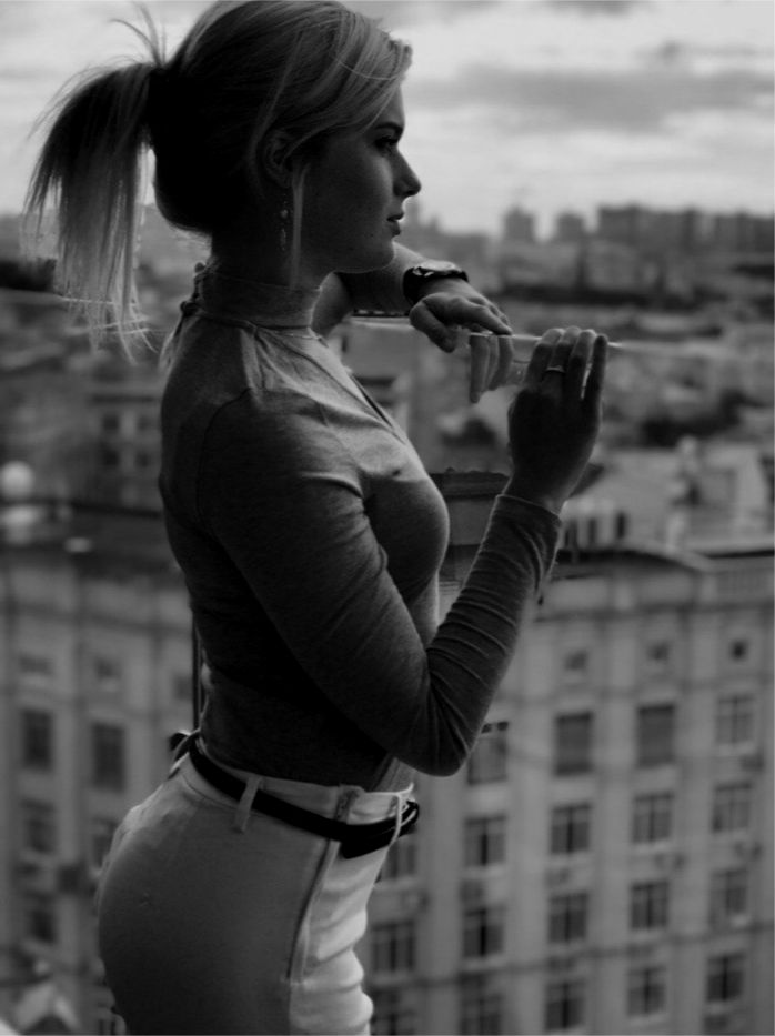 Sofya Vyacheslavovna Fyodorova, Moscow, 25 June 2017